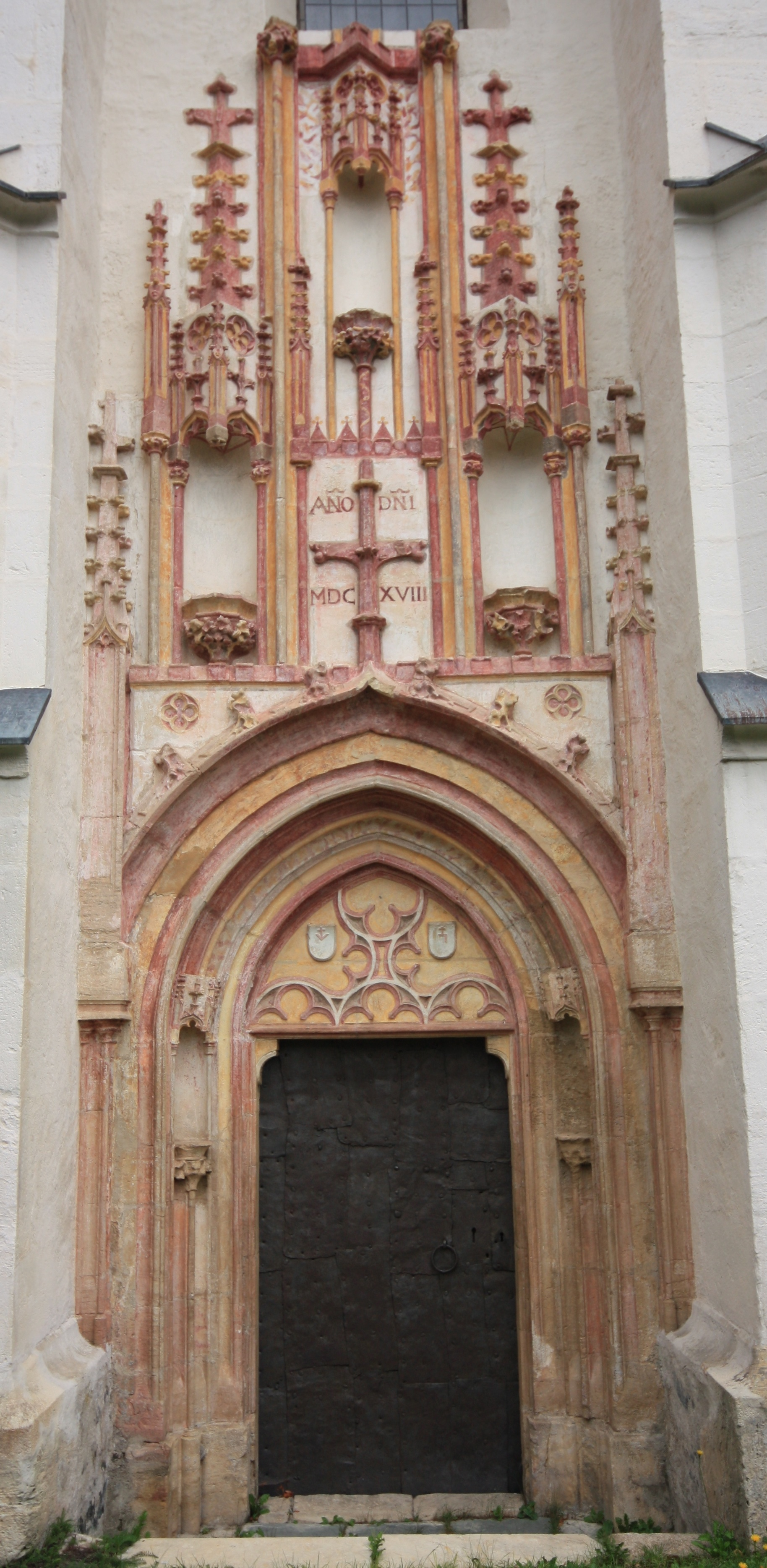 Portal of the church of Hochfeistritz Locality: Hochfeistritz Community:Eberstein